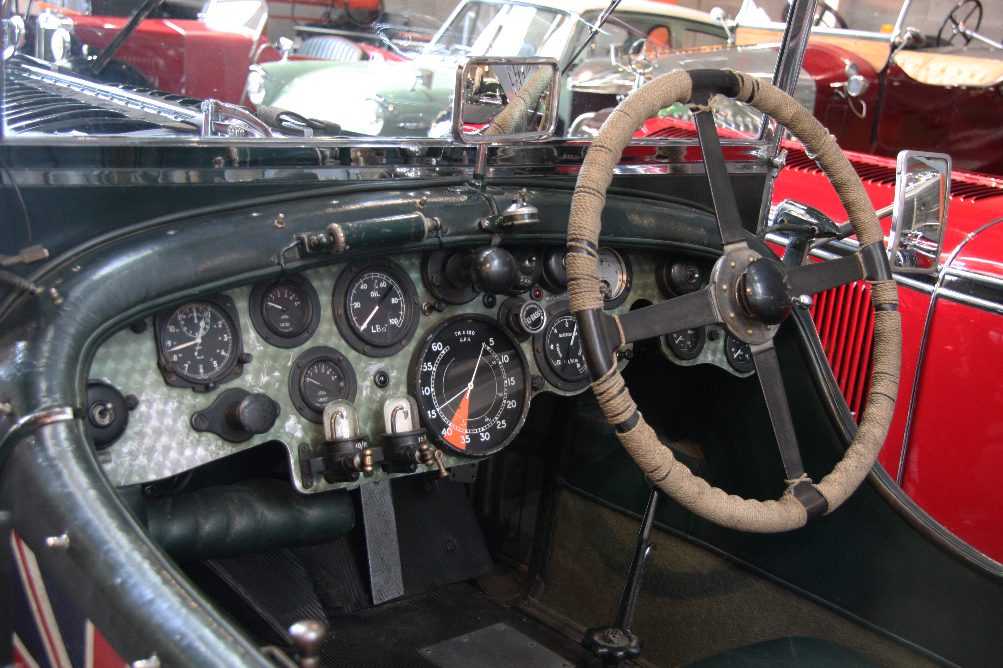 1929 1931 "Blower" Bentley dashboard. Chassis MS3946 Engine MS3948 Reg GY 3905 delivered August 1931 Photo of original coupé body by Vanden Plas fitted by Jack Barclay (not Corsica)